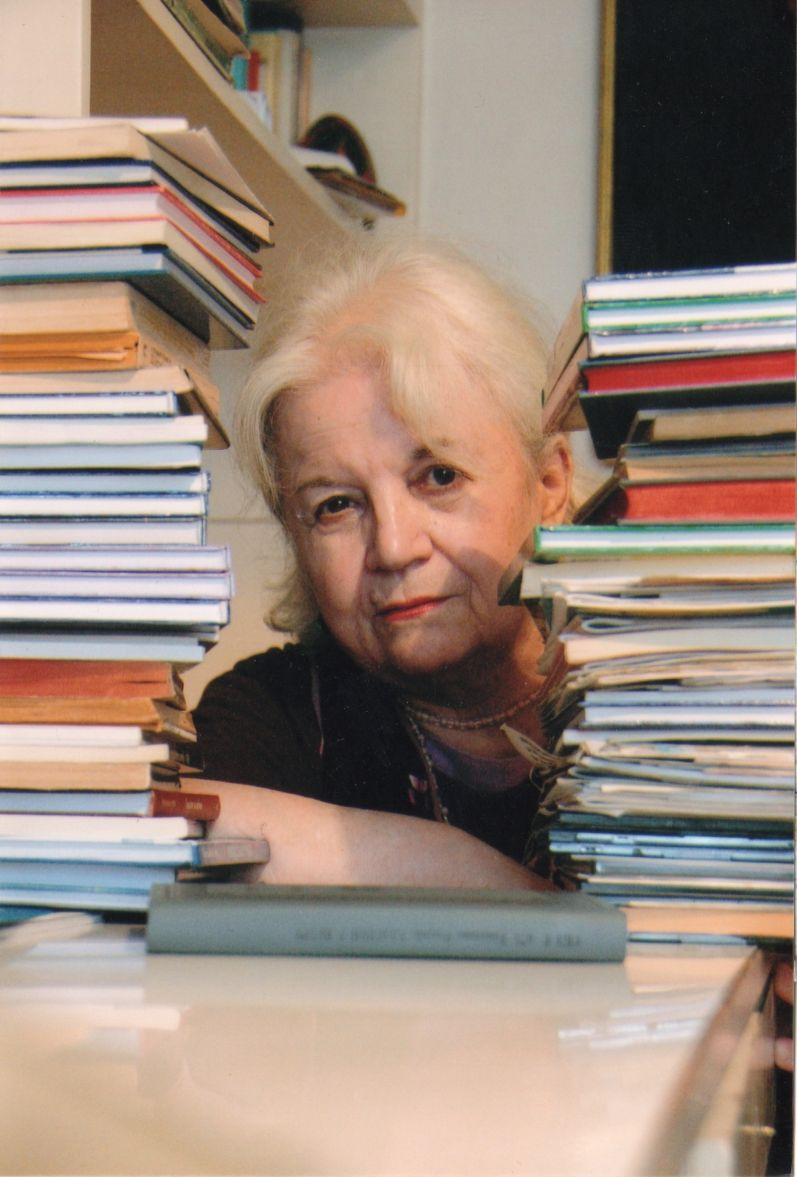 Portrait Grozdana Olujic from 2009